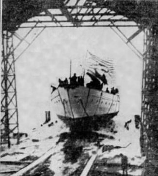 Meteor III yacht leaving Ways after christening by Miss Roosevelt